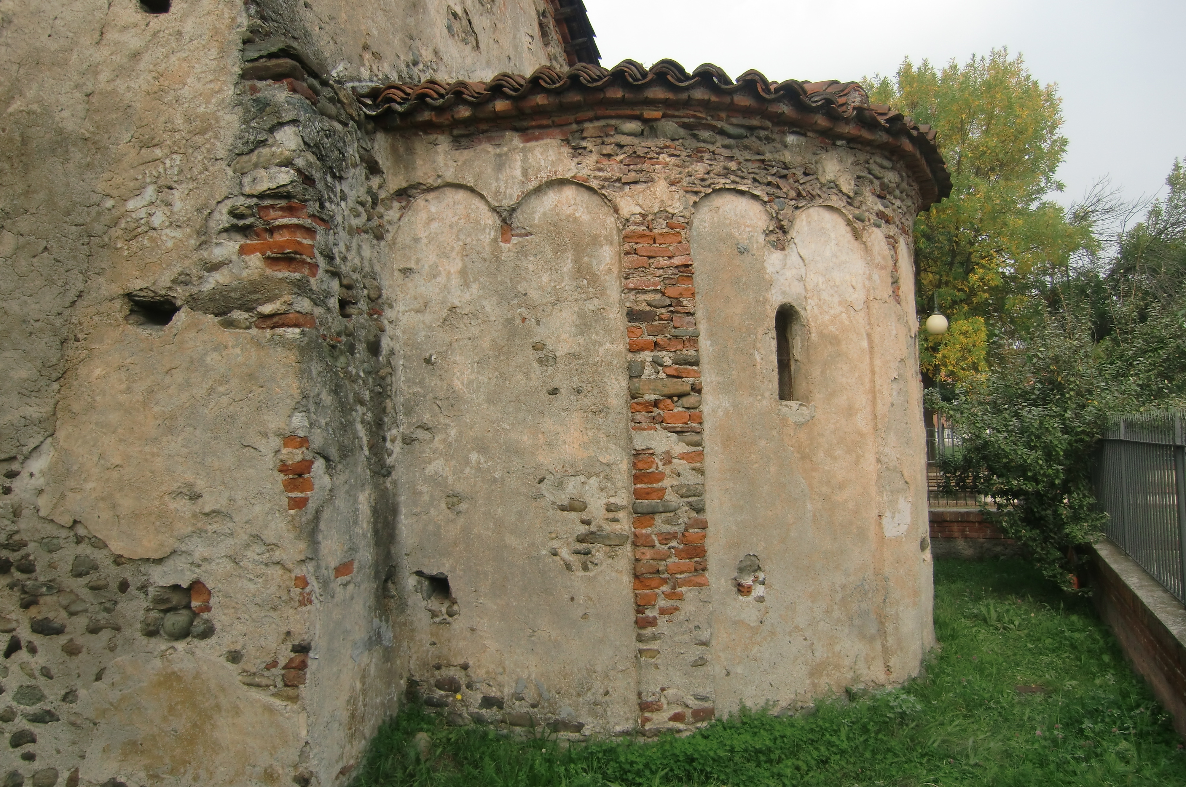 Santa Maria di Spinerano church, the romanesque apse XI century